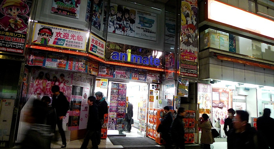 Animate is a shop that you don't want to miss when visiting - full of anime goodies - figures at highly discounted prices too. More about what sort of goodies can be found at Akihabara listed up below.